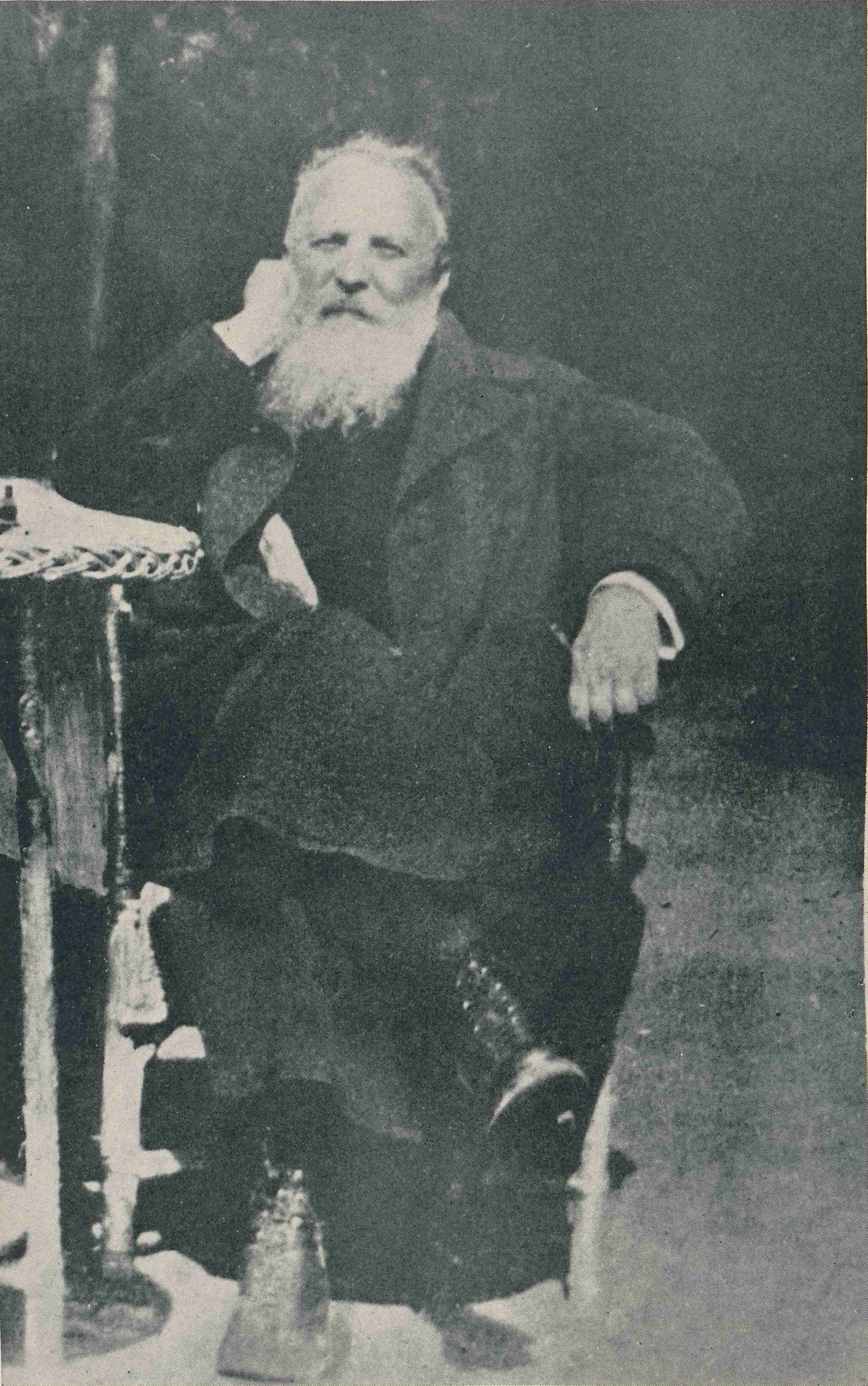 This is a photo reproduction of picture from a following book: Maciej Masłowski: Stanisław Masłowski - Materiały do życiorysu i twórczości, ed. Zakład Narodowy im.Ossolińskich Wrocław 1957.